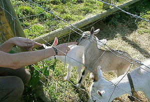 A photo of young goats at Bath City Farm, Bath, England.